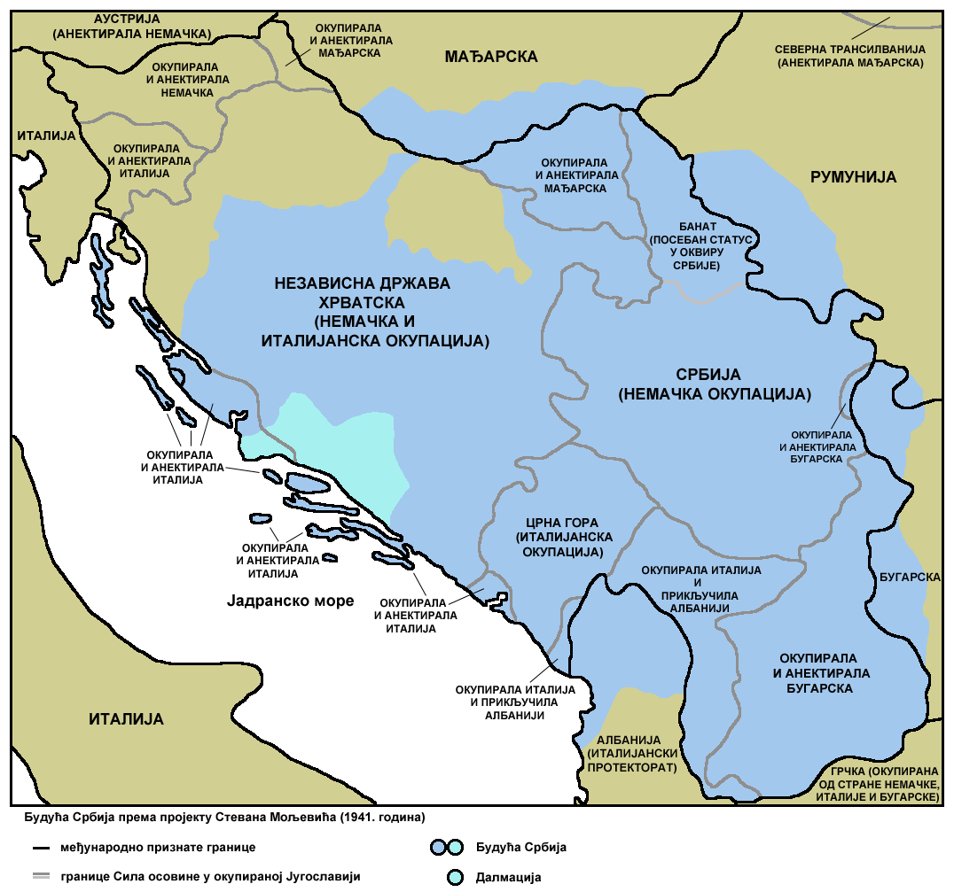 Future Serbia according to project of Stevan Moljević (1941).